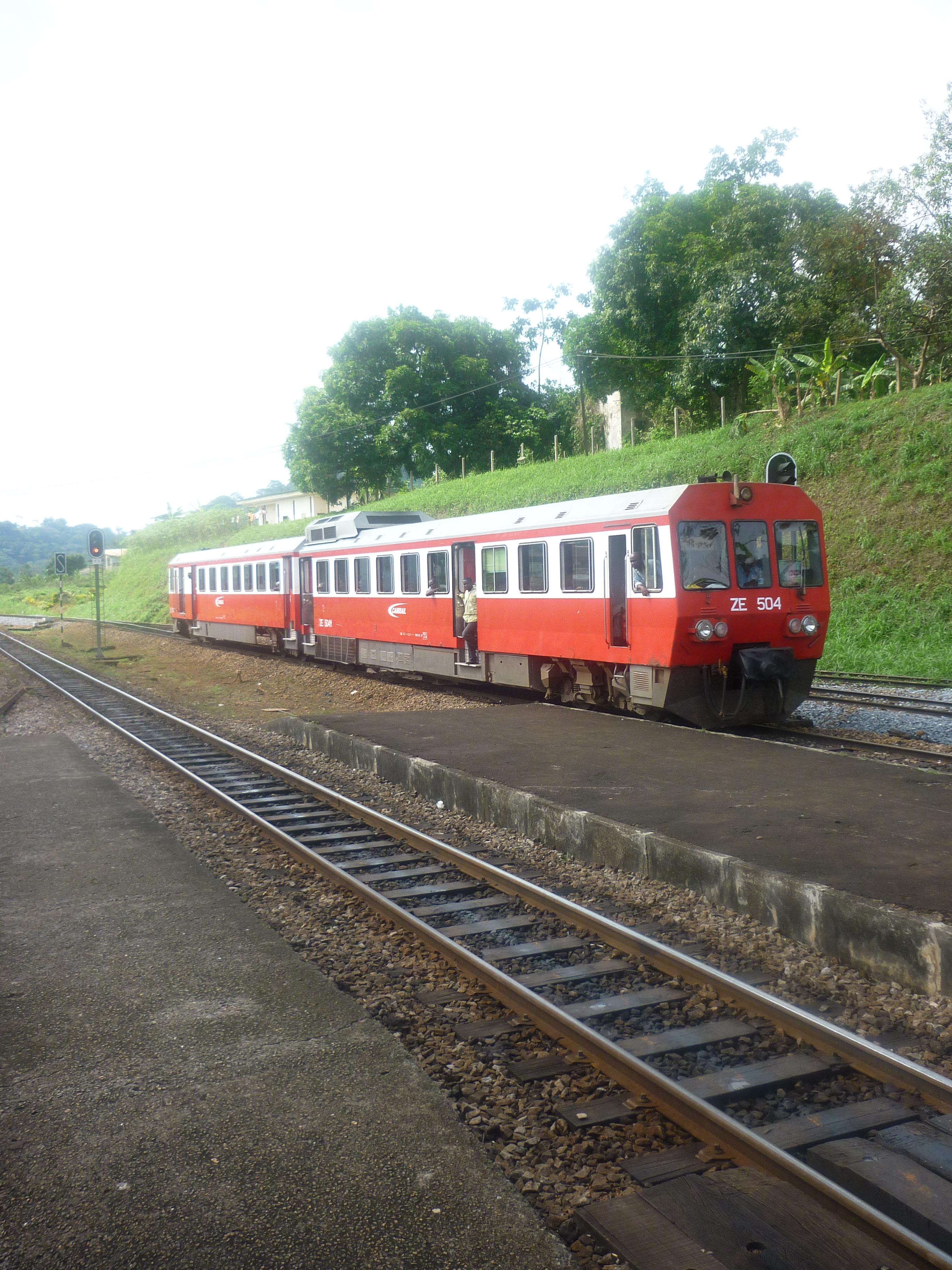 Ex-Portuguese Diesel Multiple unit 9600 in Cameroon, which does the service between Douala and Yaoundé for Camrail.